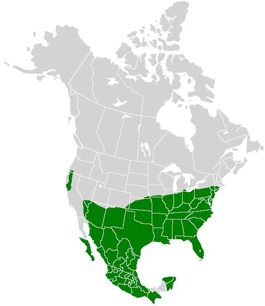 A range map showing the distribution of the Pipevine Swallowtail (Battus philenor).